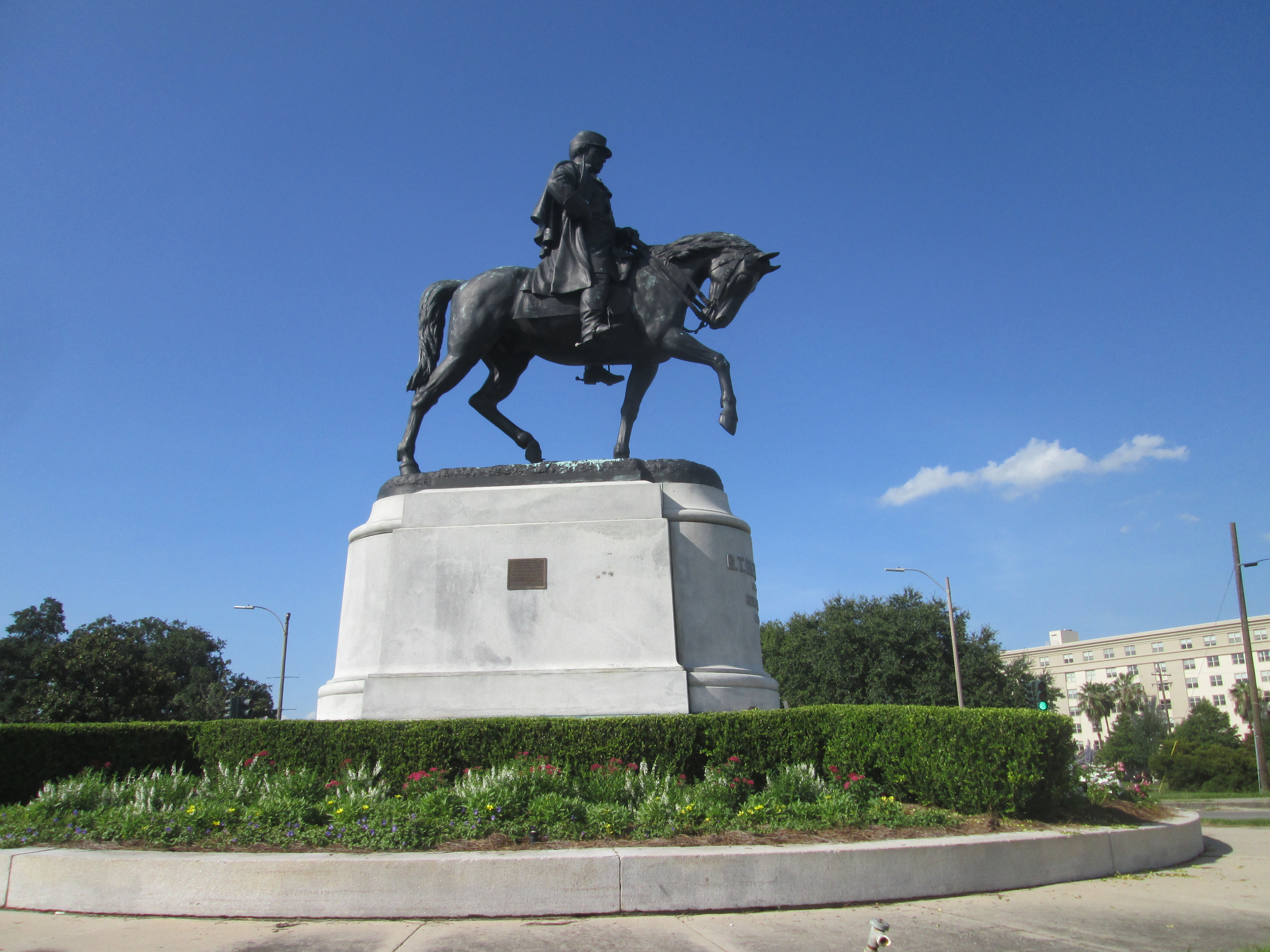 Carrollton & Esplanade Avenue intersection, New Orleans. Equestrian statue commemorating P.G.T. Beauregard in his role as Confederate General. New Orleans mayor Mitch Landrieu recently called for discussion about removing public monuments to Confederate soldiers and to "white supremacy" from public streets to museums.